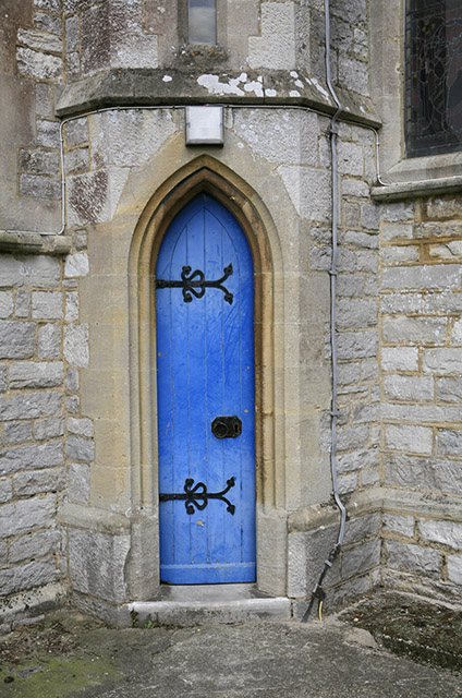 Slimmer's door, Ringwood Church. This unusually narrow door occupies a rightangled corner formed by the main walls of the church of St Peter & St Paul.